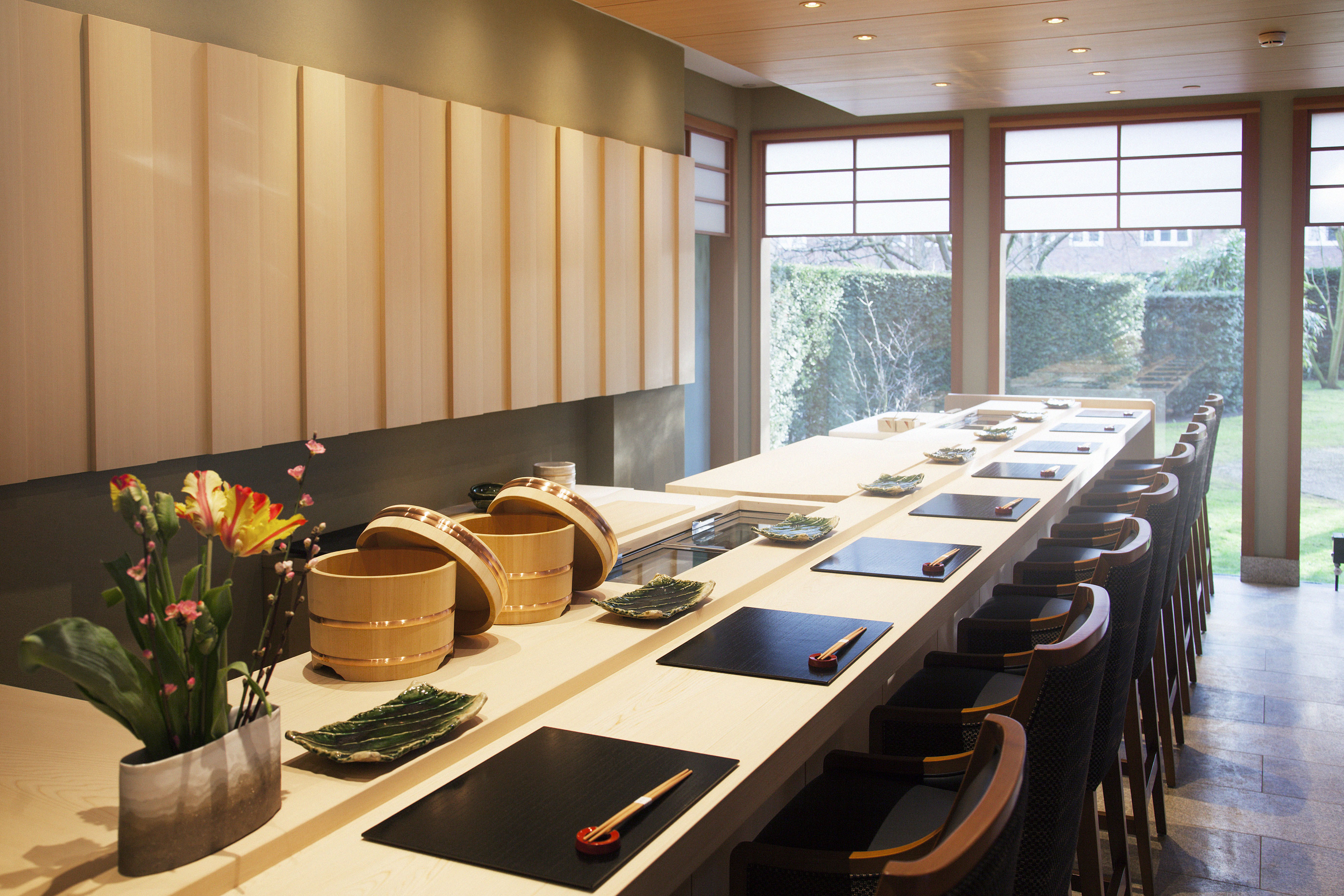 Yamazato Restaurant - Sushi counter